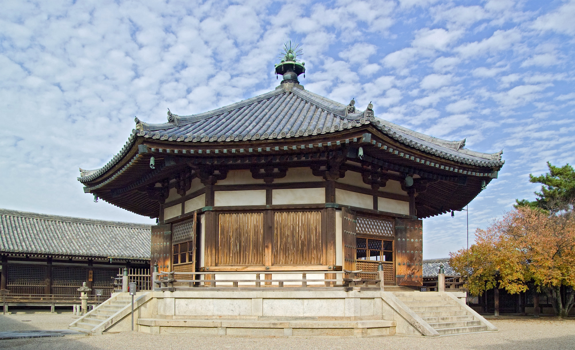 Yumedono (Hall of Dreams) at Horyu-ji Buddhist temple, Nara Prefecture, Japan